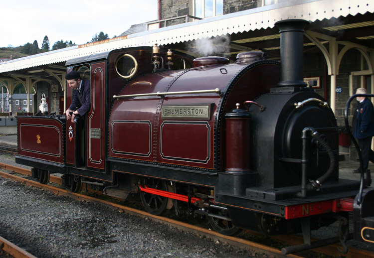 Palmerston at Porthmadog Station during the Vintage Gala in 2005